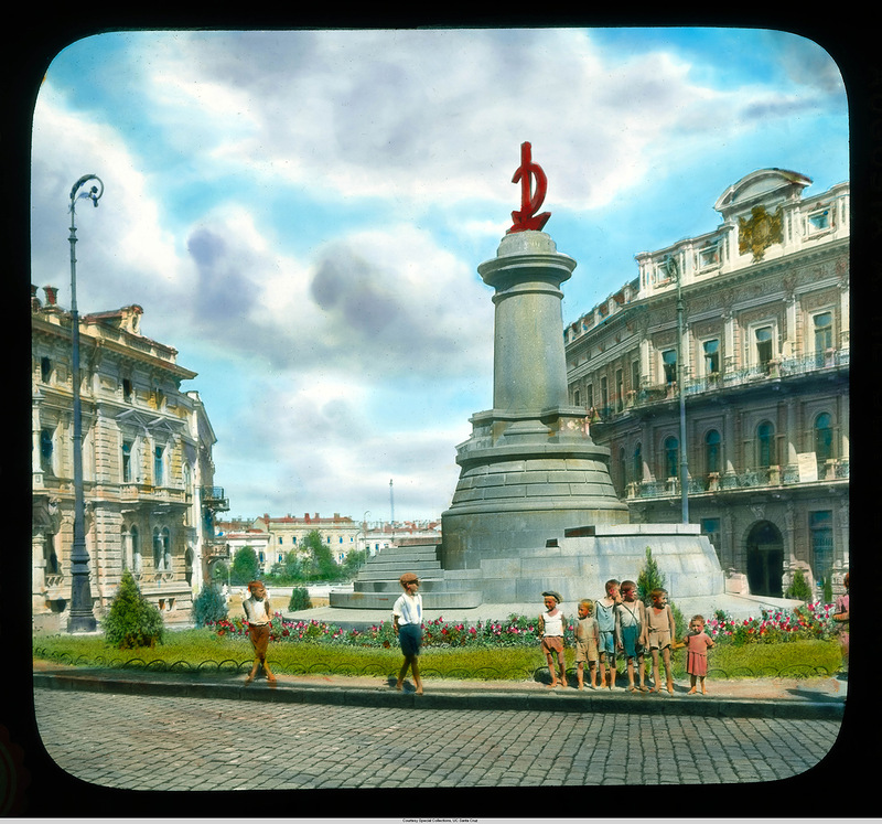 Glass lantern slide coloured by hand, which was taken while Branson De Cou was travelling with his lectures to Odessa, USSR, 1931. Karl Marx Square.